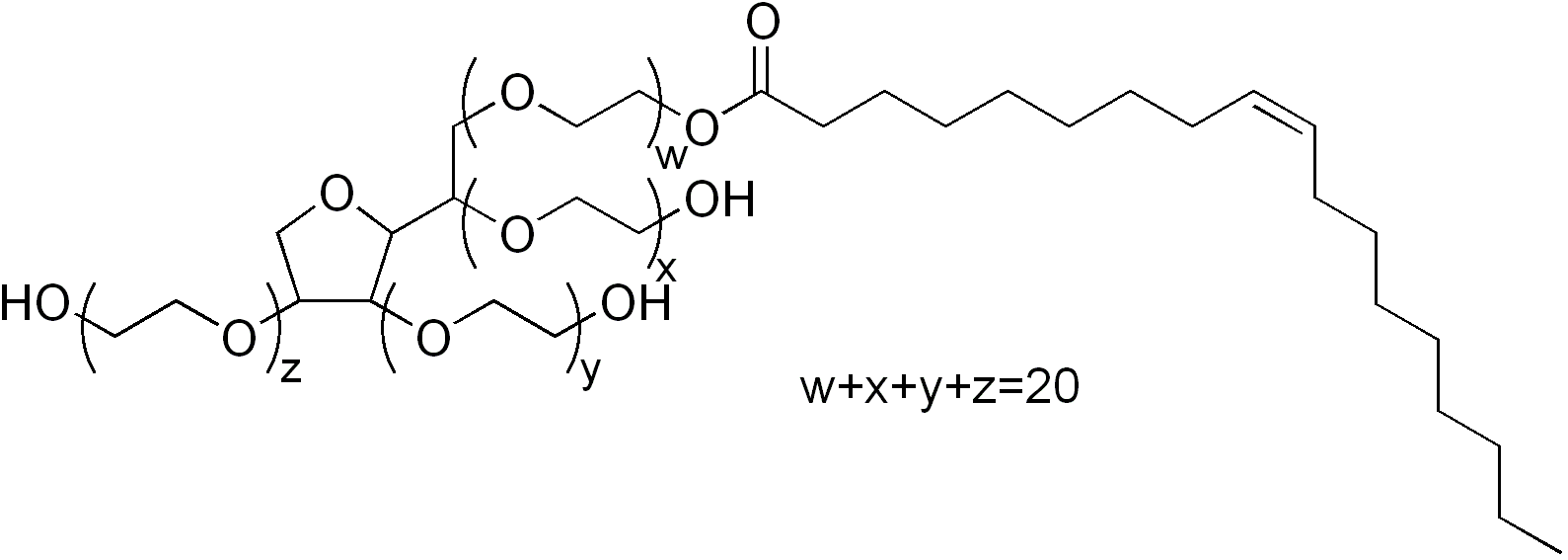 chemical structure of polysorbate 80